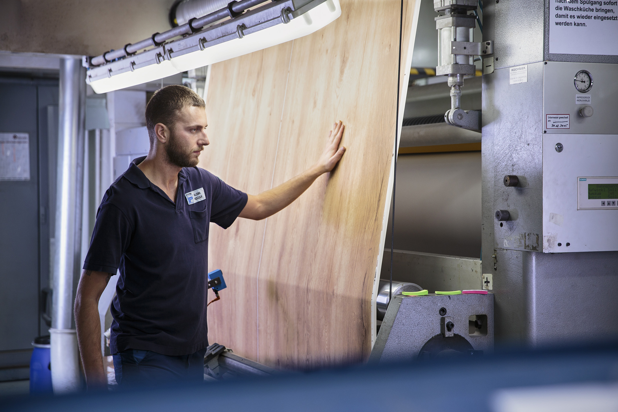 Decor Paper Production, Interprint Arnsberg